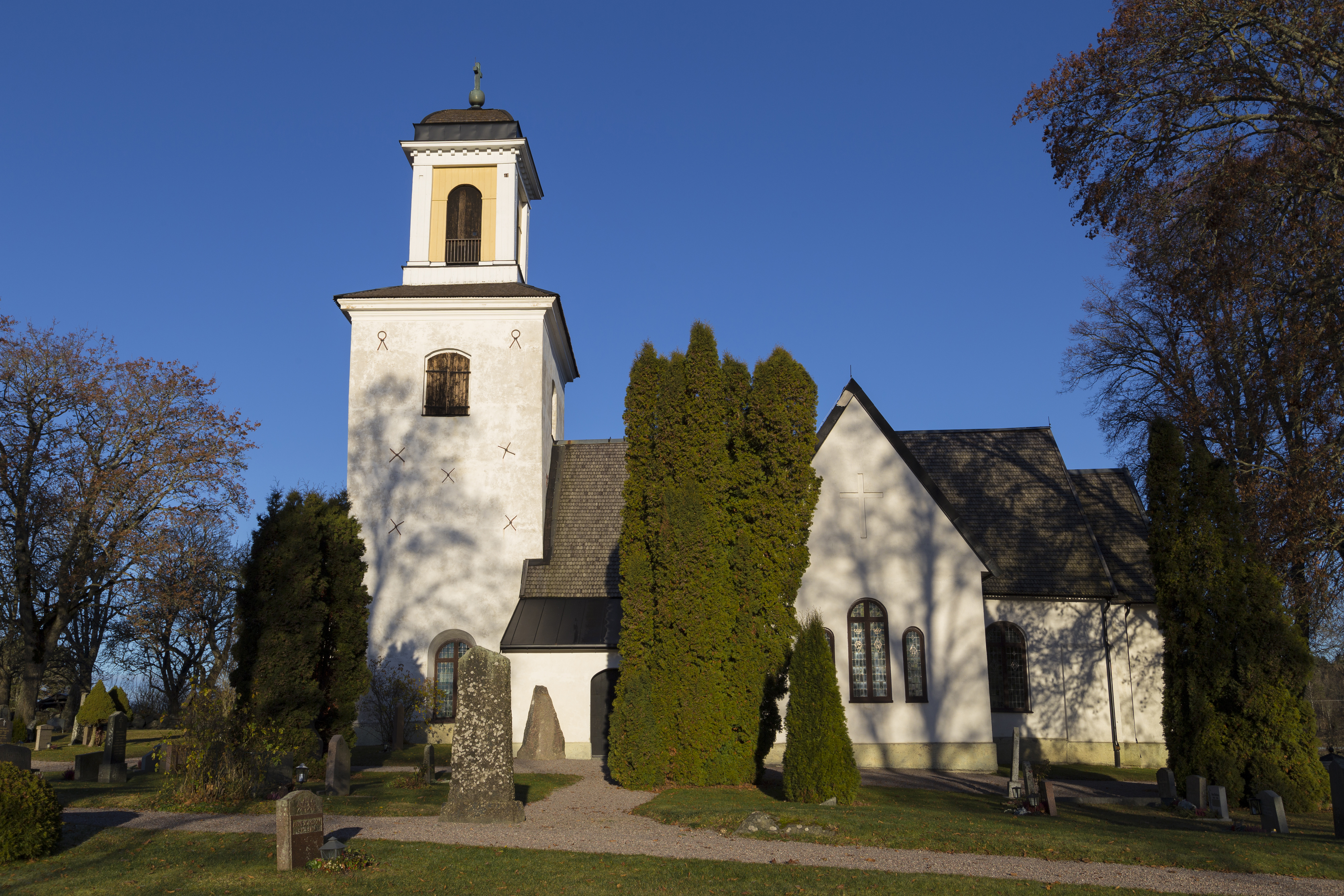 Alsike Church south of Uppsala in Knivsta Municipality, Sweden